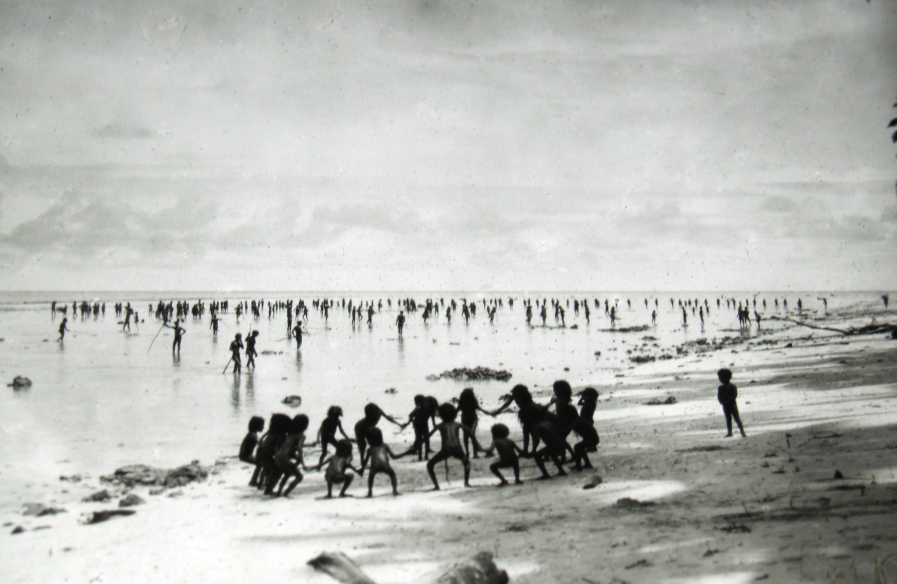 Groups of people on Tobi Island. Children, fishing scene.